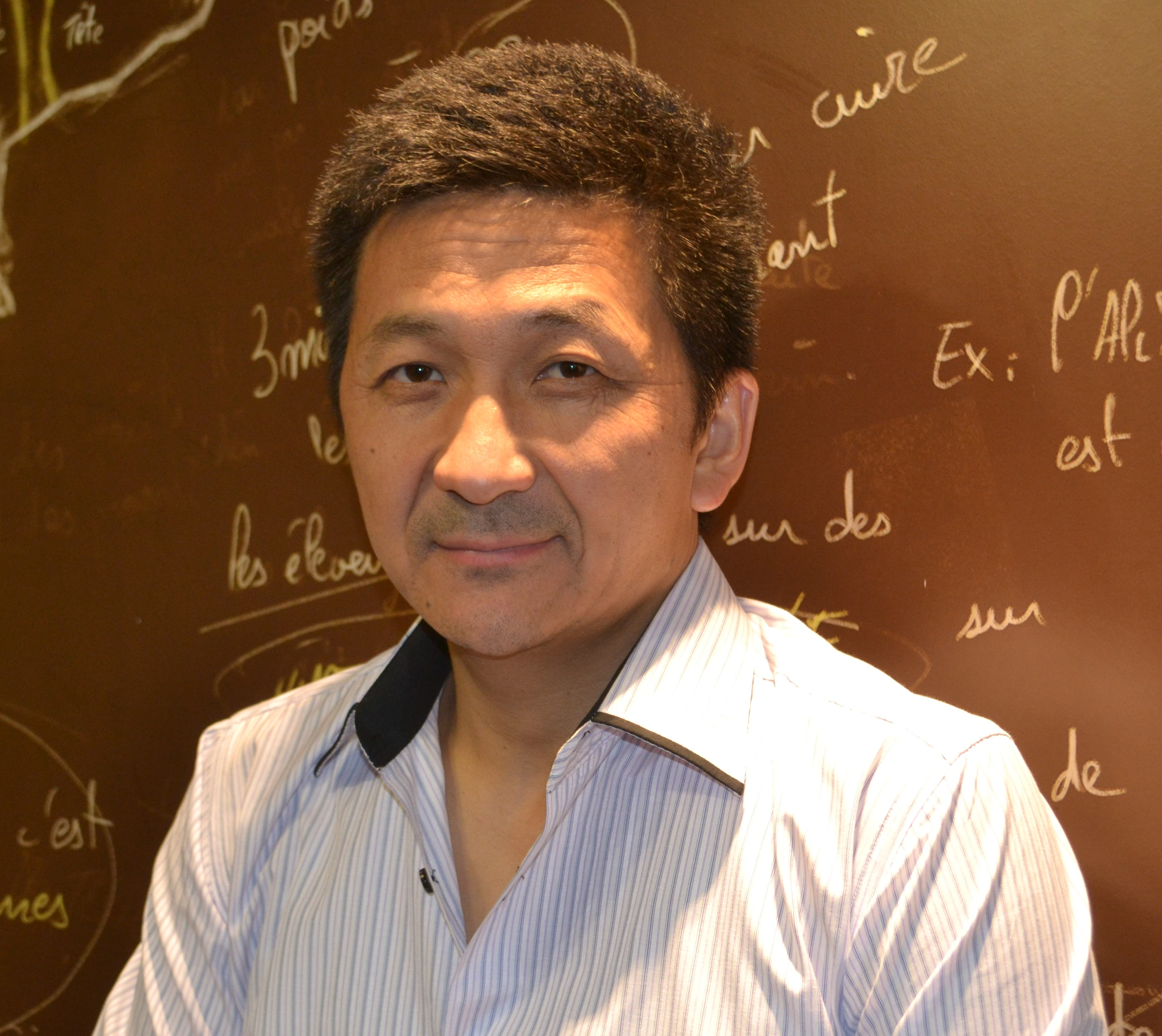 Mr. Jengishbek Edigeev, an independent Kyrgyz journalist and Kyrgyz-French translator (born 20.03.1971). 27.5.2013. Кыргызча: Жеңишбек Эдигеев, көз каранды эмес кыргыз журналисти жана публицисти. 20.3.1971-жылы Кыргызстанда туулган. 27.5.2013.